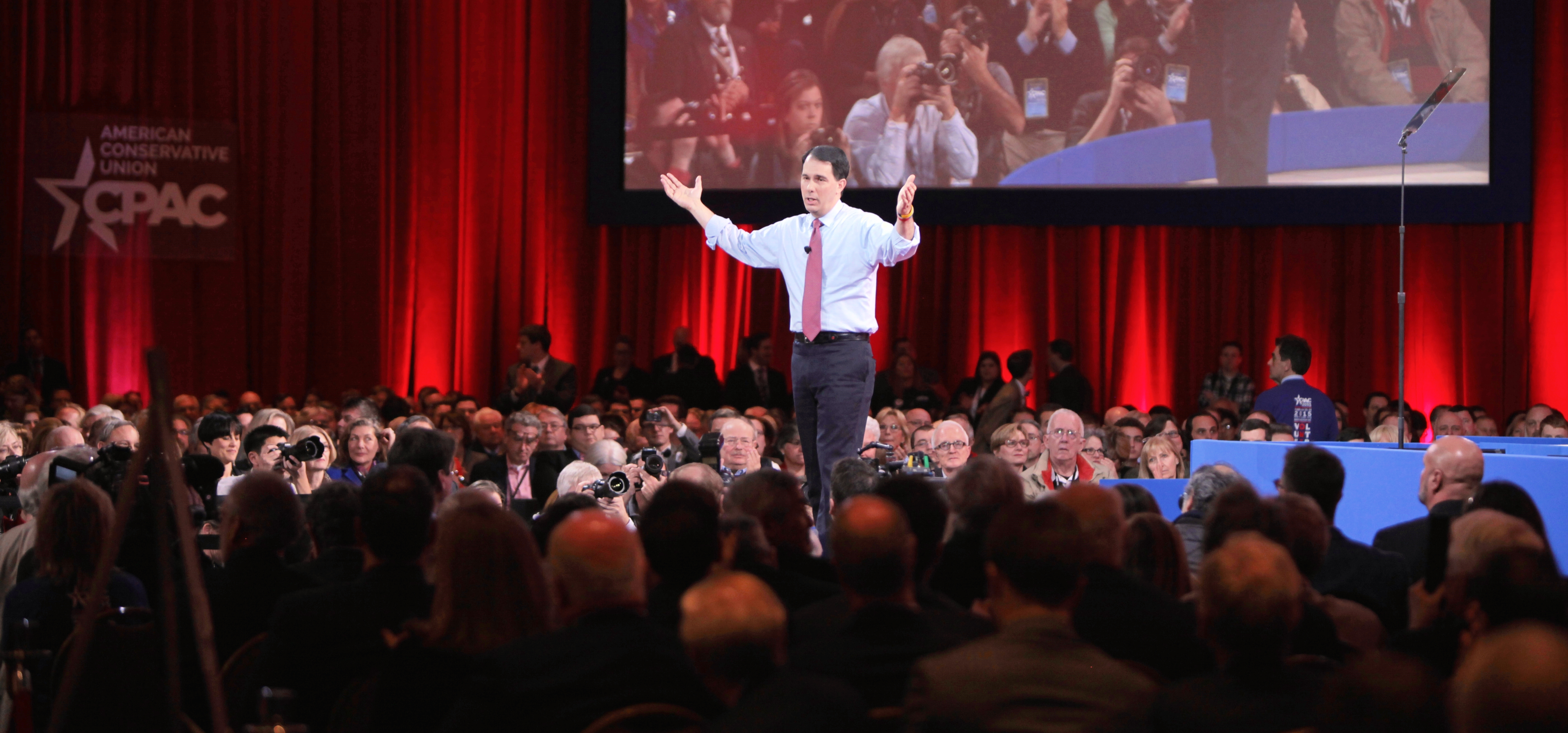 in National Harbor, Maryland